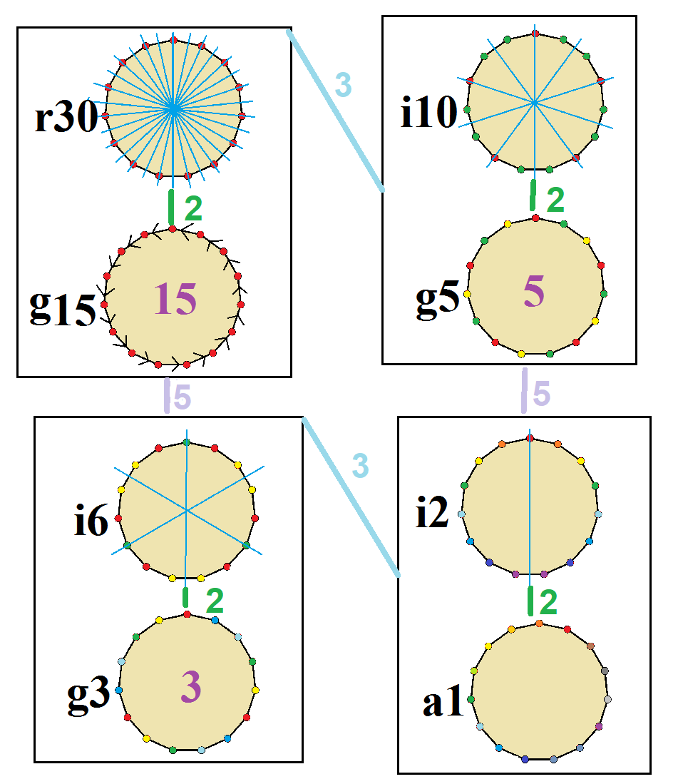 Pentadecagon symmetryJohn Conway labels these lower symmetries with a letter and order of the symmetry follows the letter.[2] He gives d (diagonal) with mirror lines through vertices, p with mirror lines through edges (perpendicular), i with mirror lines through both vertices and edges, and g for rotational symmetry. a1 labels no symmetry.